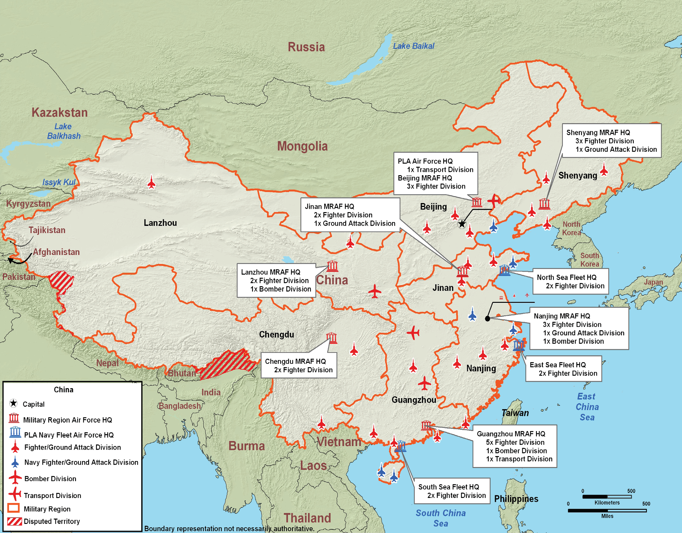 Figure 12. Major Air Force Units